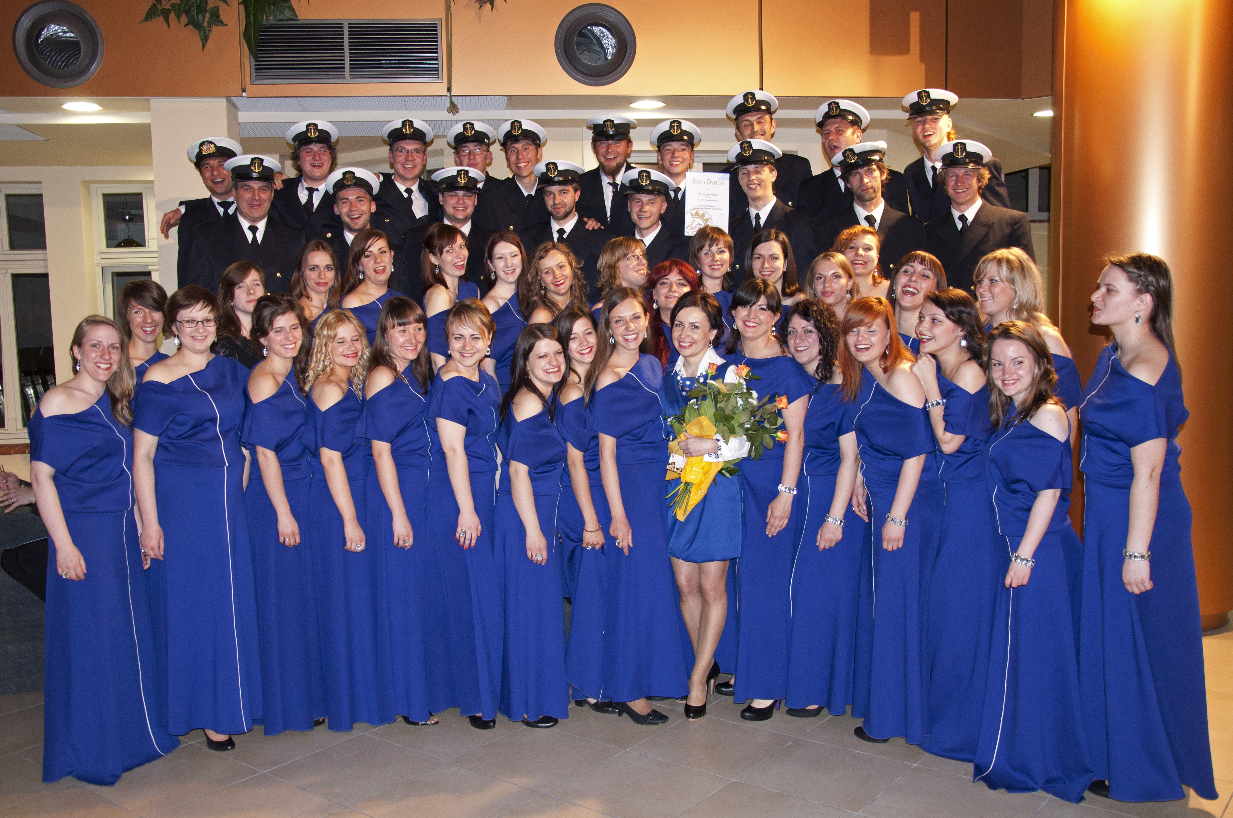 Chór Akademii Morskiej w Szczecinie na 44. festiwalu Legnica Cantat